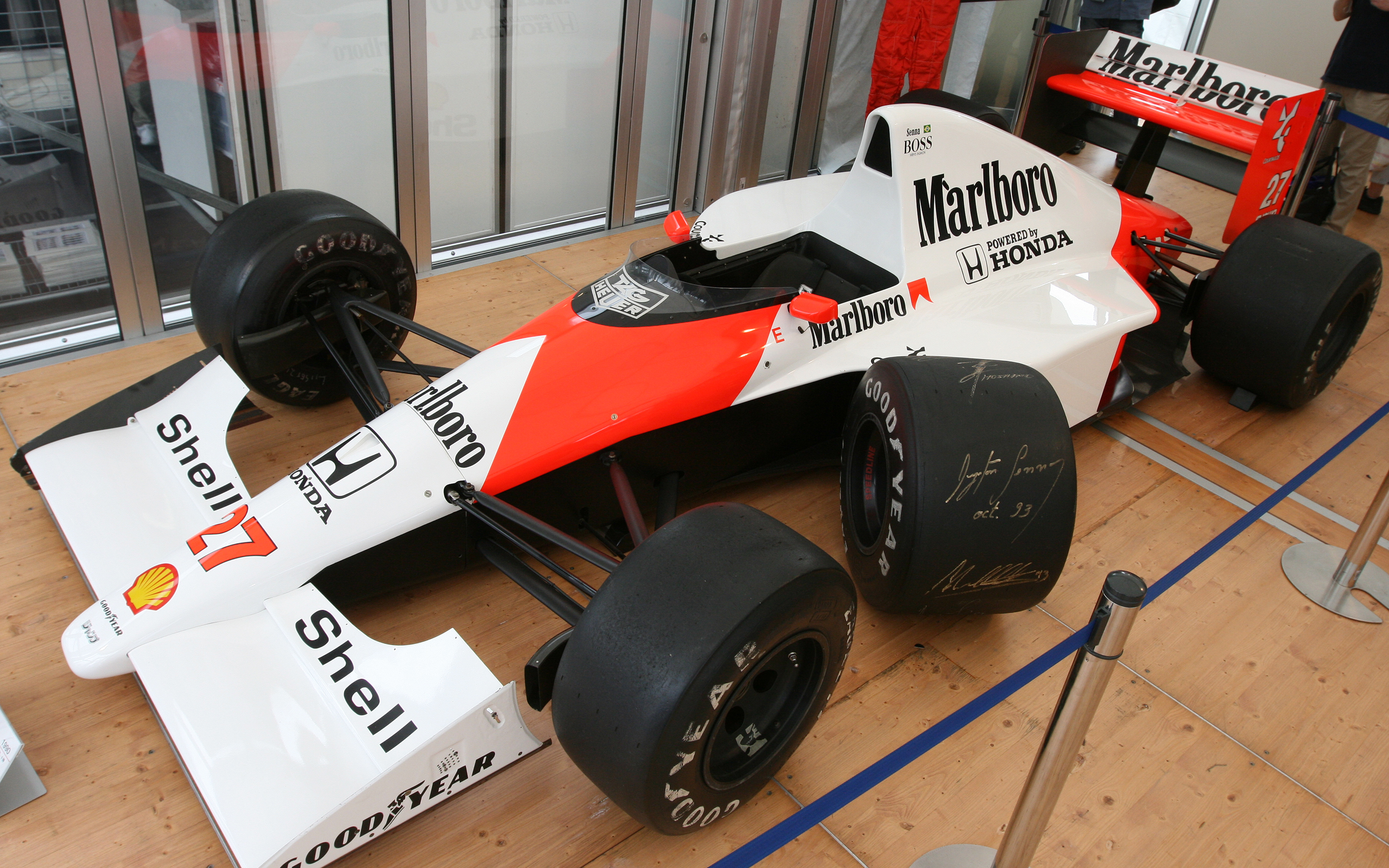 Formula One 2009 Rd.15 Japanese GP: Ayrton Senna's 1990 McLaren MP4/5B and his autographed tyre at the Ayrton Senna Foundation's store